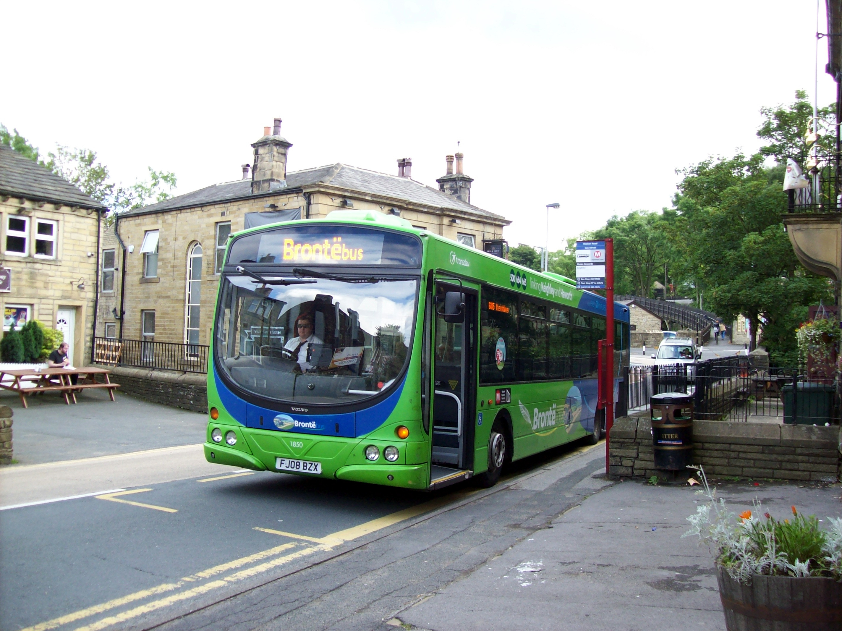 The service supports the Bronte Parsonage Museum promoting its literary connections and the town in general. The following quotation is from the press release issued at the time of the service inauguration. "“Life is so constructed that an event does not, cannot, will not, match the expectation,” wrote Charlotte Brontë in Villette. Transdev in Keighley are confident the same won’t be said of the company’s new ‘Brontë Bus’ which started service on Sunday 26th April. Charlotte Bronte 1816 - 1855.